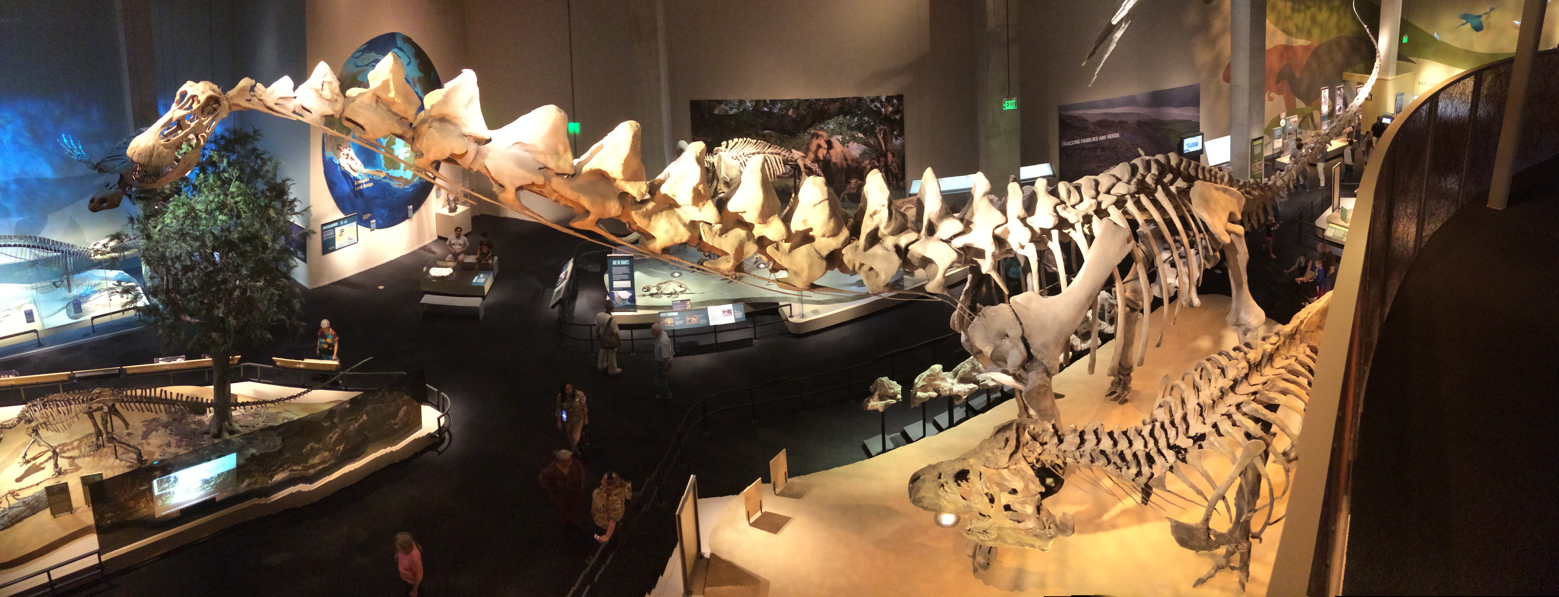 Taken in panoramic mode